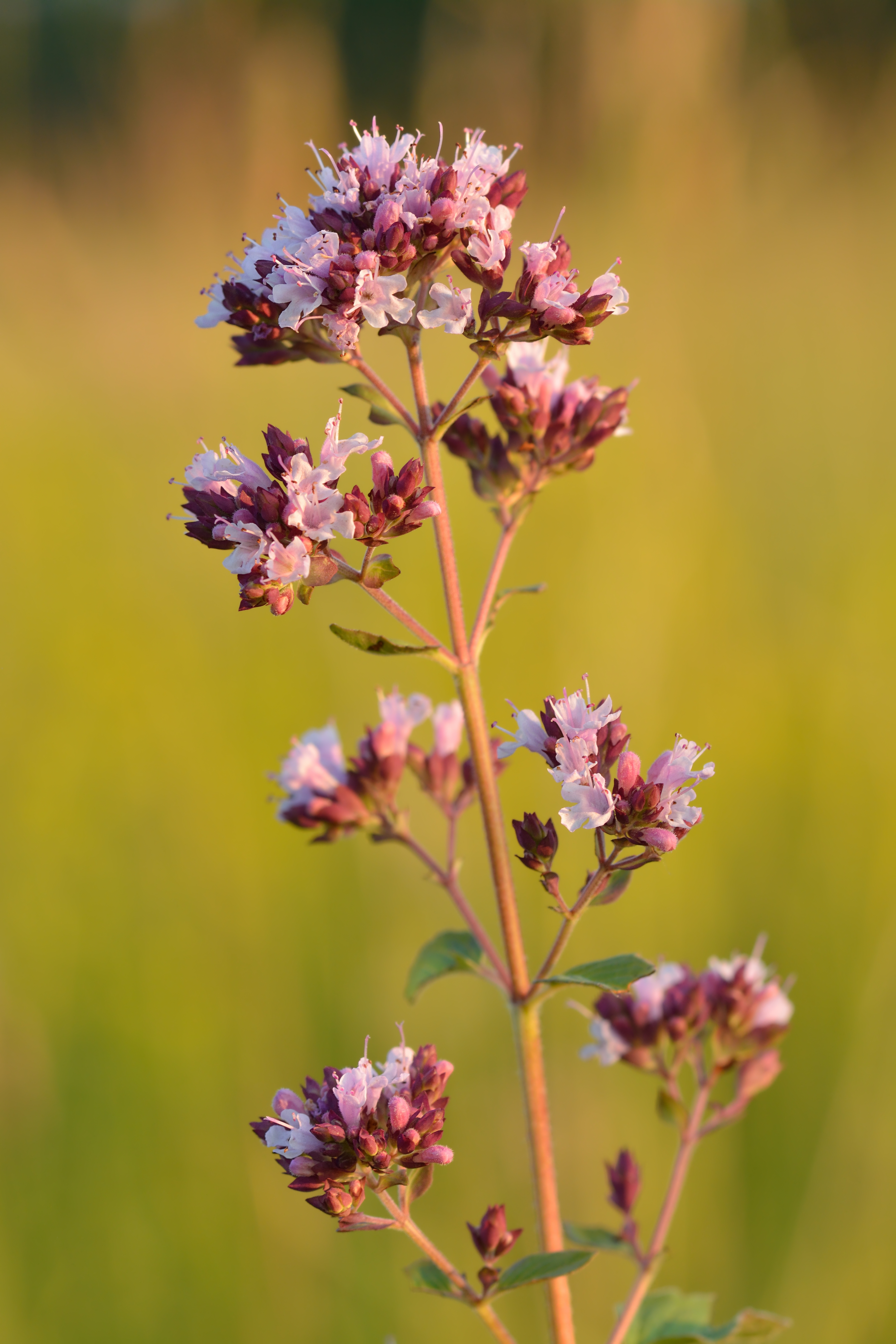 Inflorescence of Oregano.